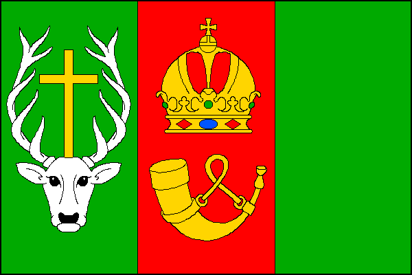 Municipal flag of Hlavenec , District Prague East, Czech Republic